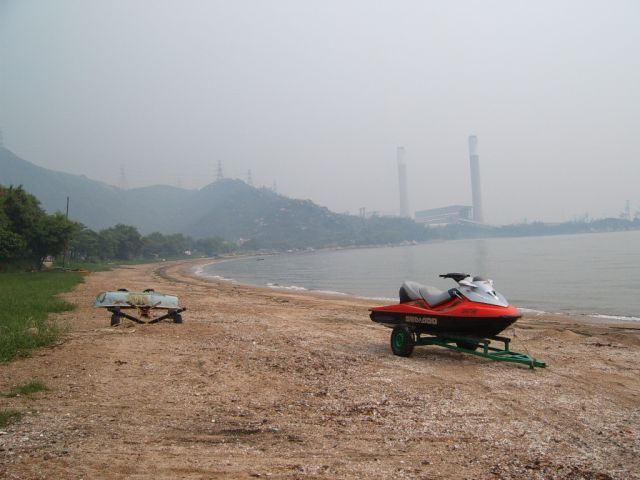 Lung Kwu Tan at Tuen Mun, Hong Kong. Photo taken by myself (User:Sl) on 24 August 2004. 香港屯門龍鼓灘，在2004年8月24日拍攝。